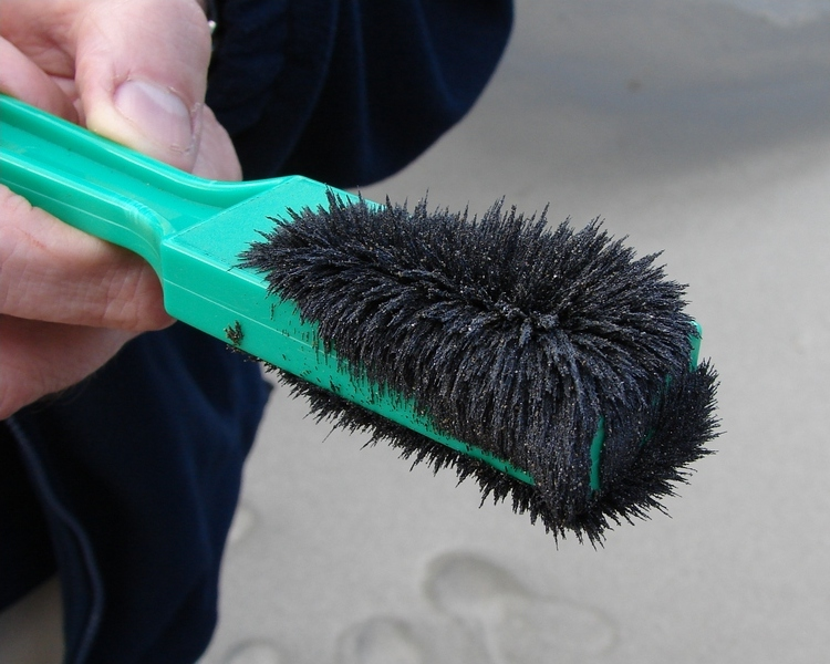 It what happens if you touch the sand with a magnet - you get an "iron brush" (fun for kids)! Famous for surfing, Piha beach is made up of that black "iron sand" In fact it is titano-magnetite sand. It had previously been thought that the black iron sand of Piha arrived from the eruption of Mt Taranaki, but recent study shows that the sand supply of the West Coast is titano-magnetite sand primarily from the eruption of Taupo (Oruanui eruption), brought our way by the Waikato River. The Taupo volcano is one of the world's largest known eruption It occurred around 26,500 years ago. Taupo is 300km south from that Piha peach. See my photo of Piha below (and on the map - geotagged)